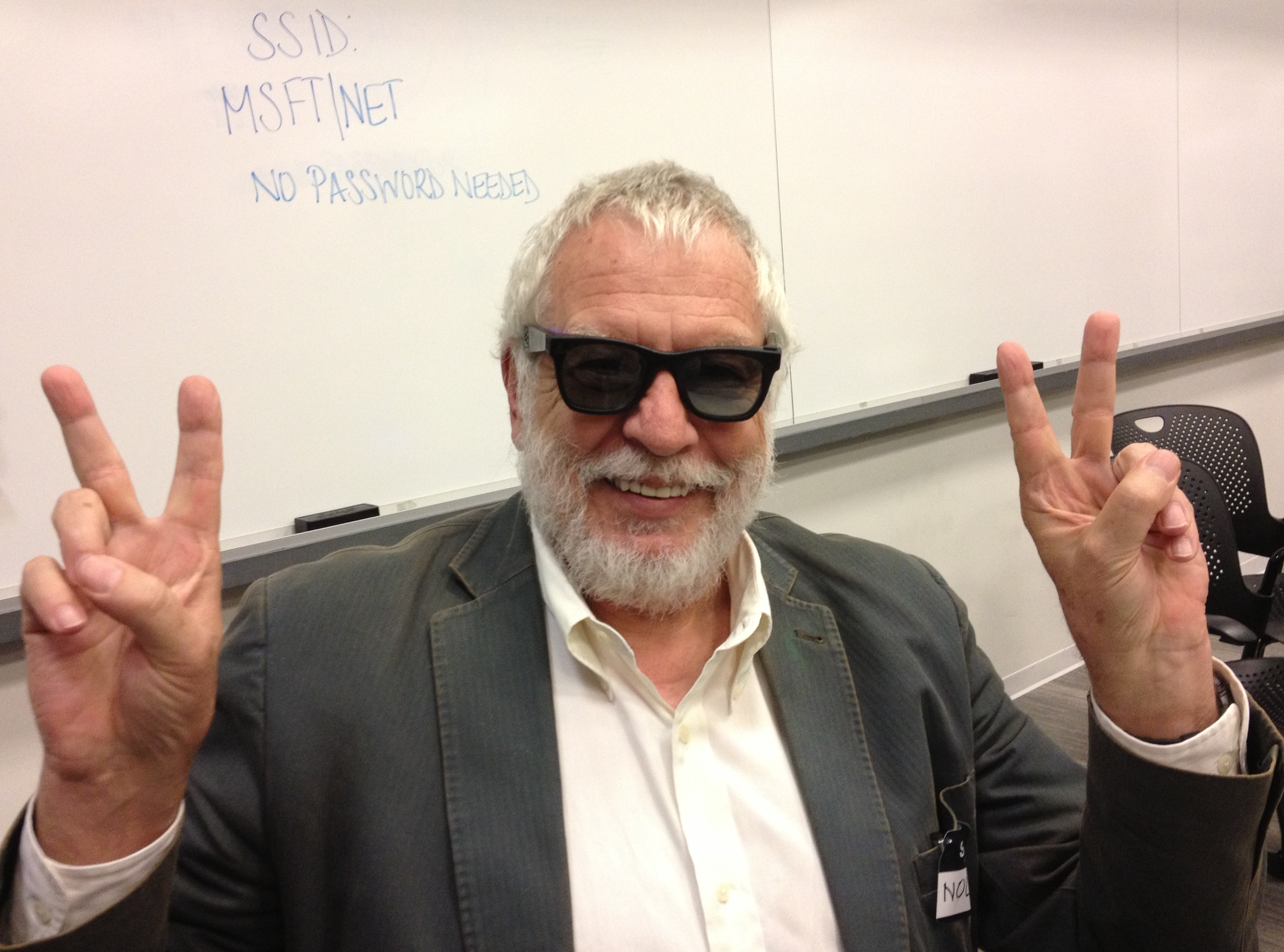 Nolan Bushnell, Founder of Atari, wearing Epiphany Eyewear